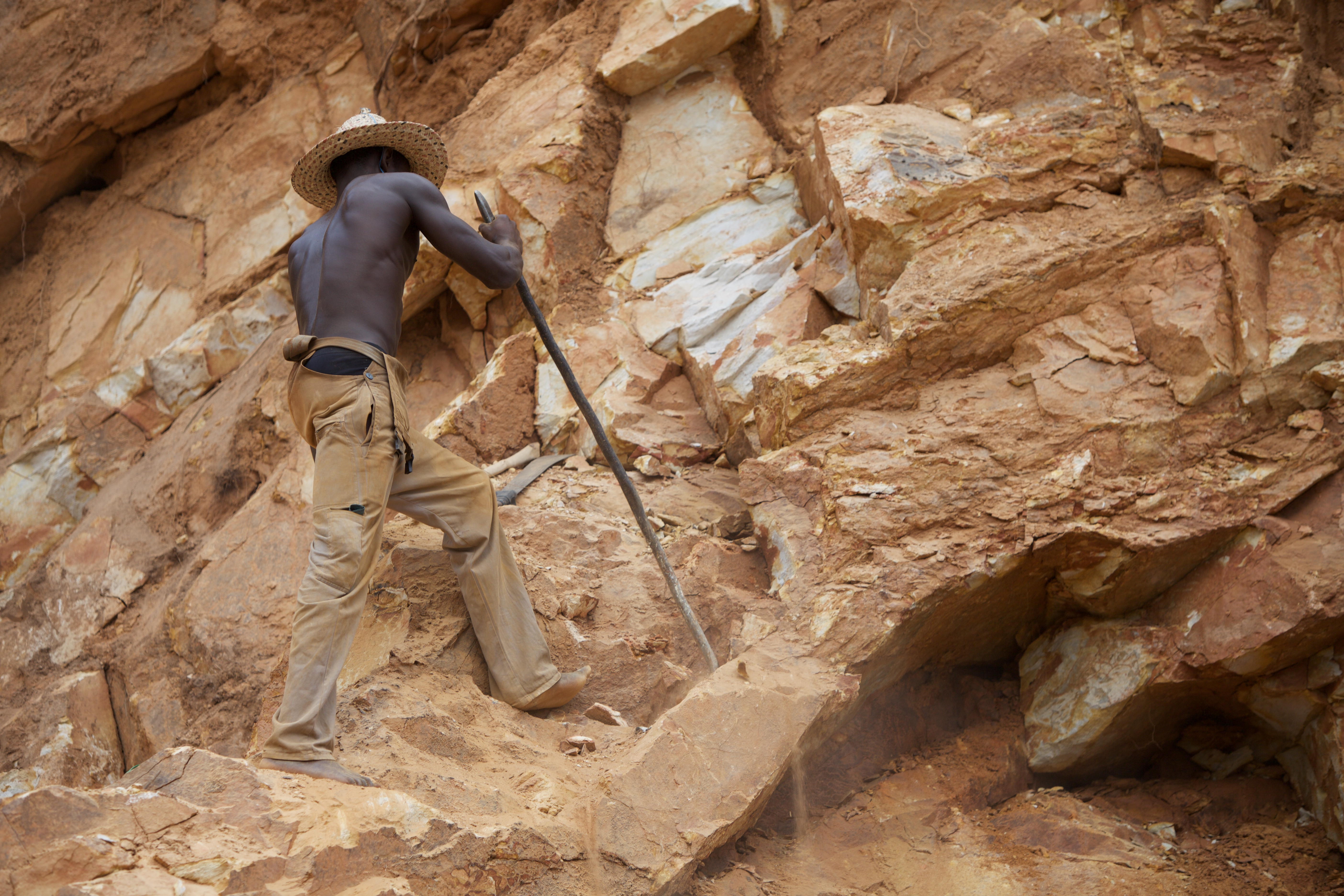 This is an image of "African people at work" from Central African Republic